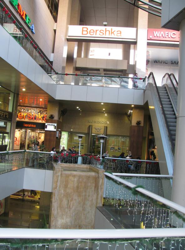 shopping mall interior